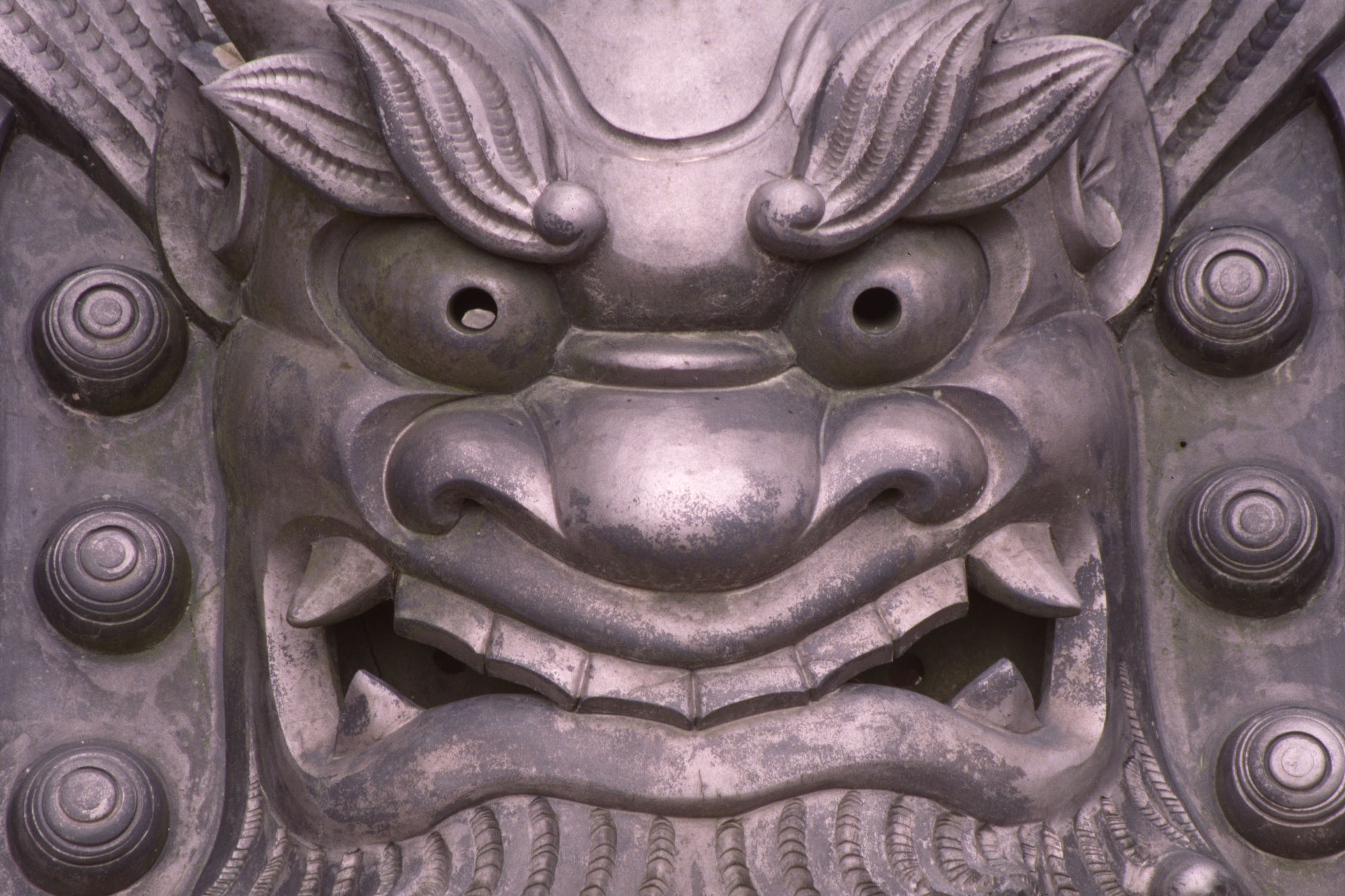 Onigawara (鬼瓦), a "devil tile" in Japan.